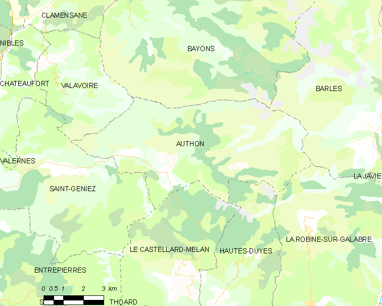 Map commune FR insee code 04016.png Légende